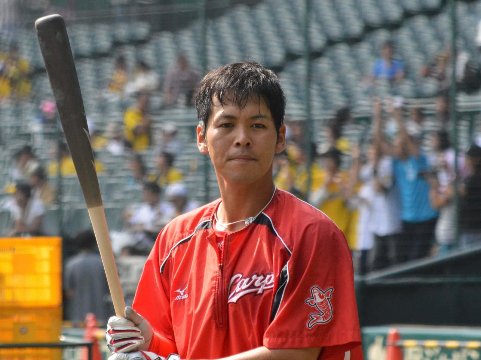 HC-Tetsuya-Kokubo20131012